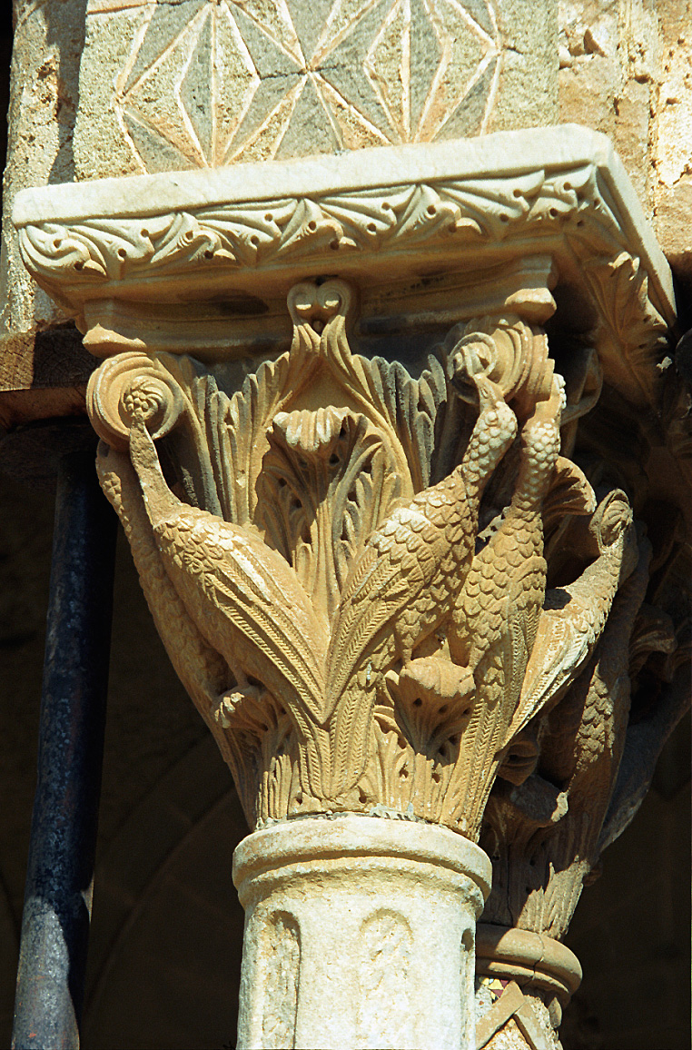 Sicily, The Cathedral Monreale